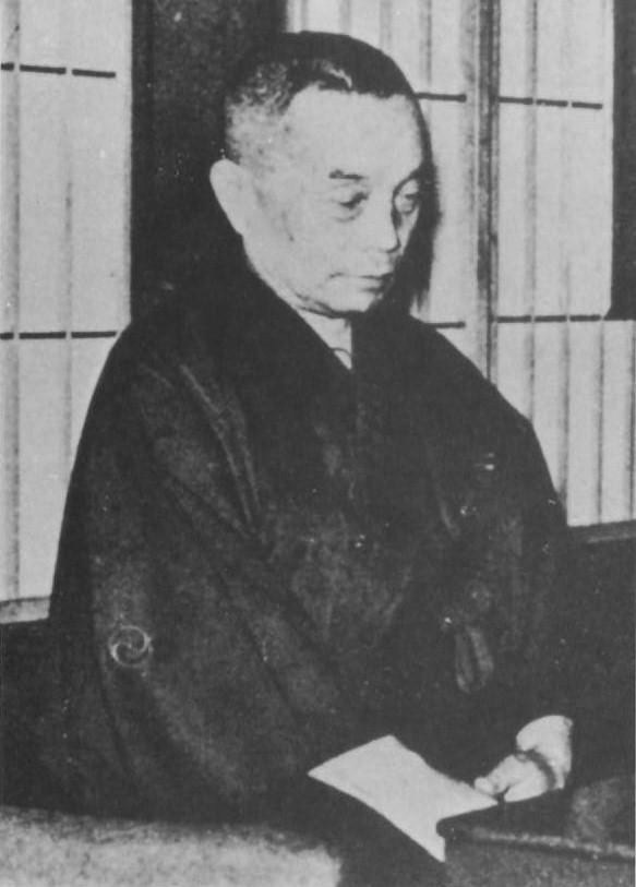 Sankichi Sakata, Legendary Japanese shogi player.